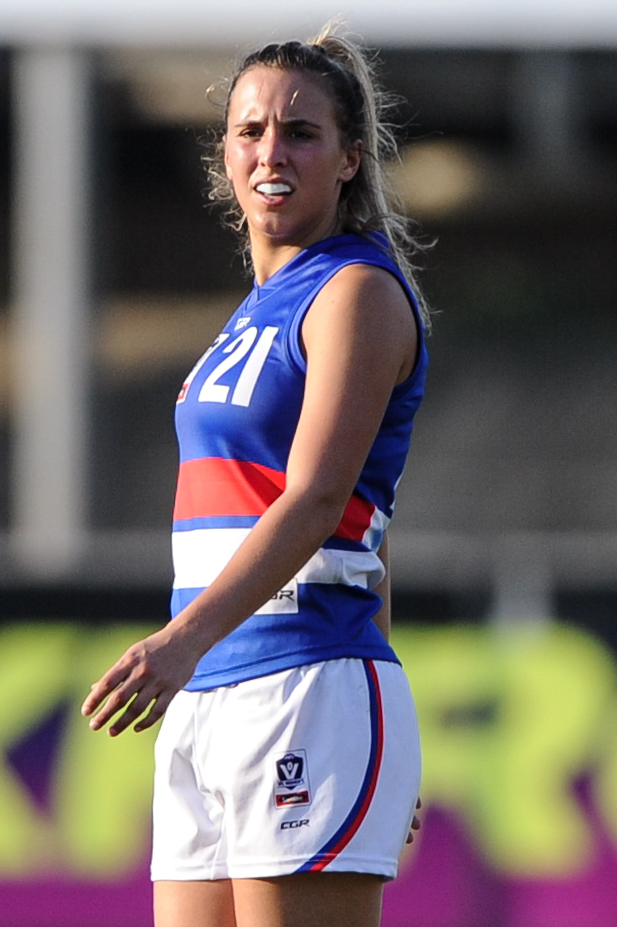 Bailey Hunt of Western Bulldogs during the 2018 VFLW round 5 match between NT Thunder and Western Bulldogs at TIO Stadium on Saturday, 2 June 2018 in Darwin, Australia.